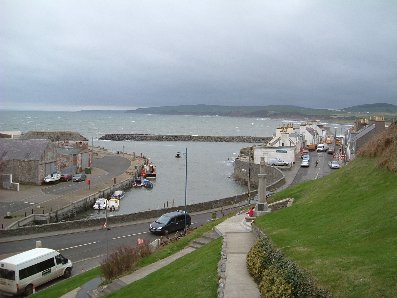 Port William Harbour. 15th November 2004 Photographer - A.M.Hurrell Camera - Fuji FinePix F401 Modified - Trimmed, file size and definition changed using Adobe Photoshop 5.0LE